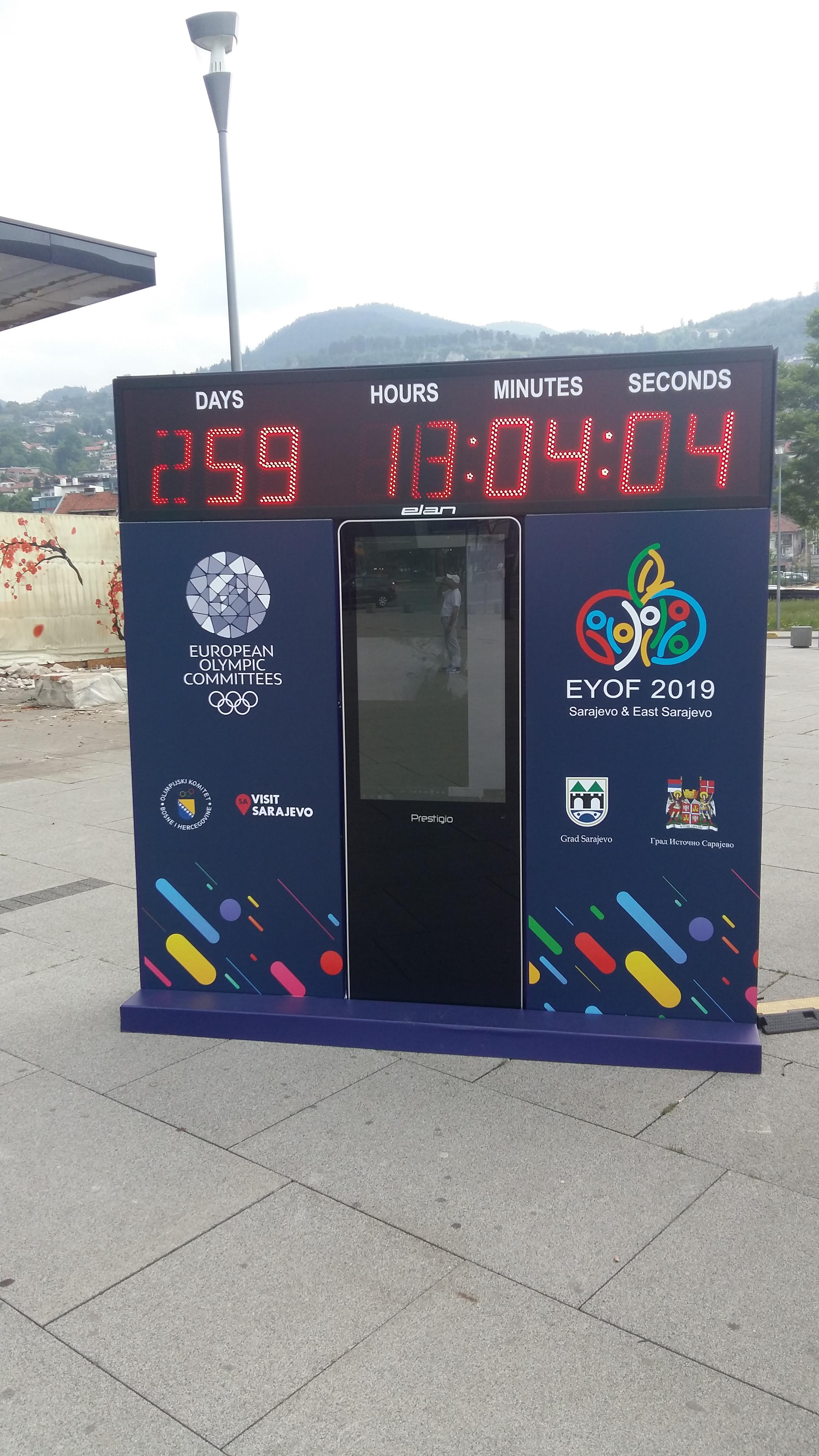 EYOF 2019 countdown